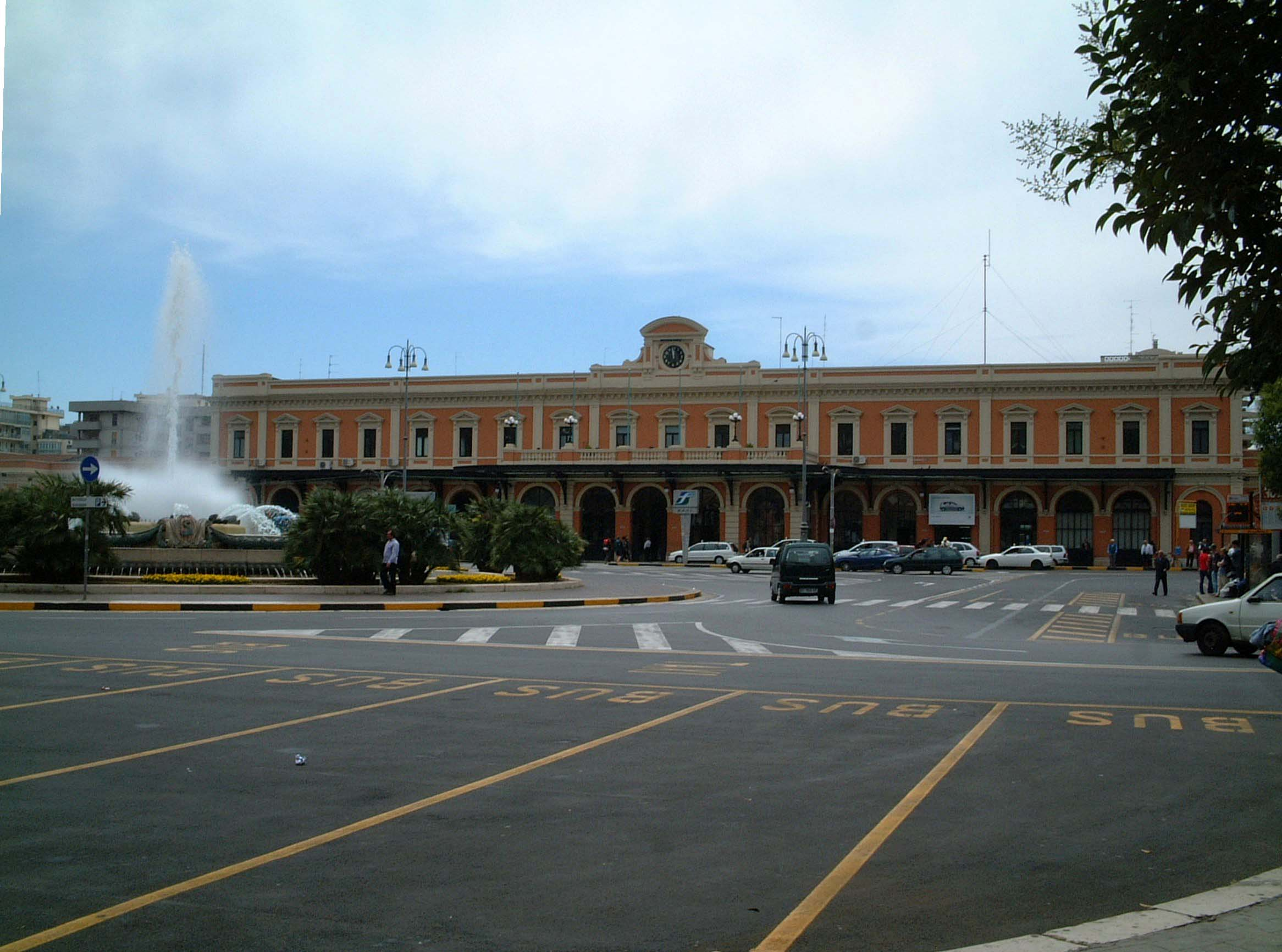 Bari Station. Photo taken in Bari Italy.